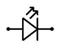 Symbol of photodiode